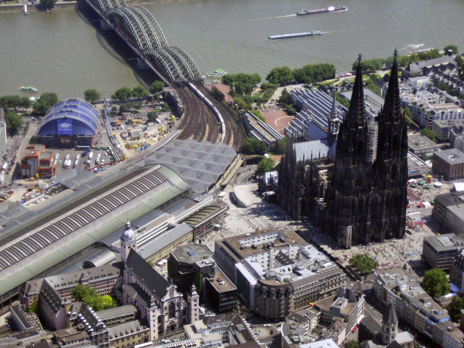 Cologne Cathedral, main station and Hohenzollernbrücke from air